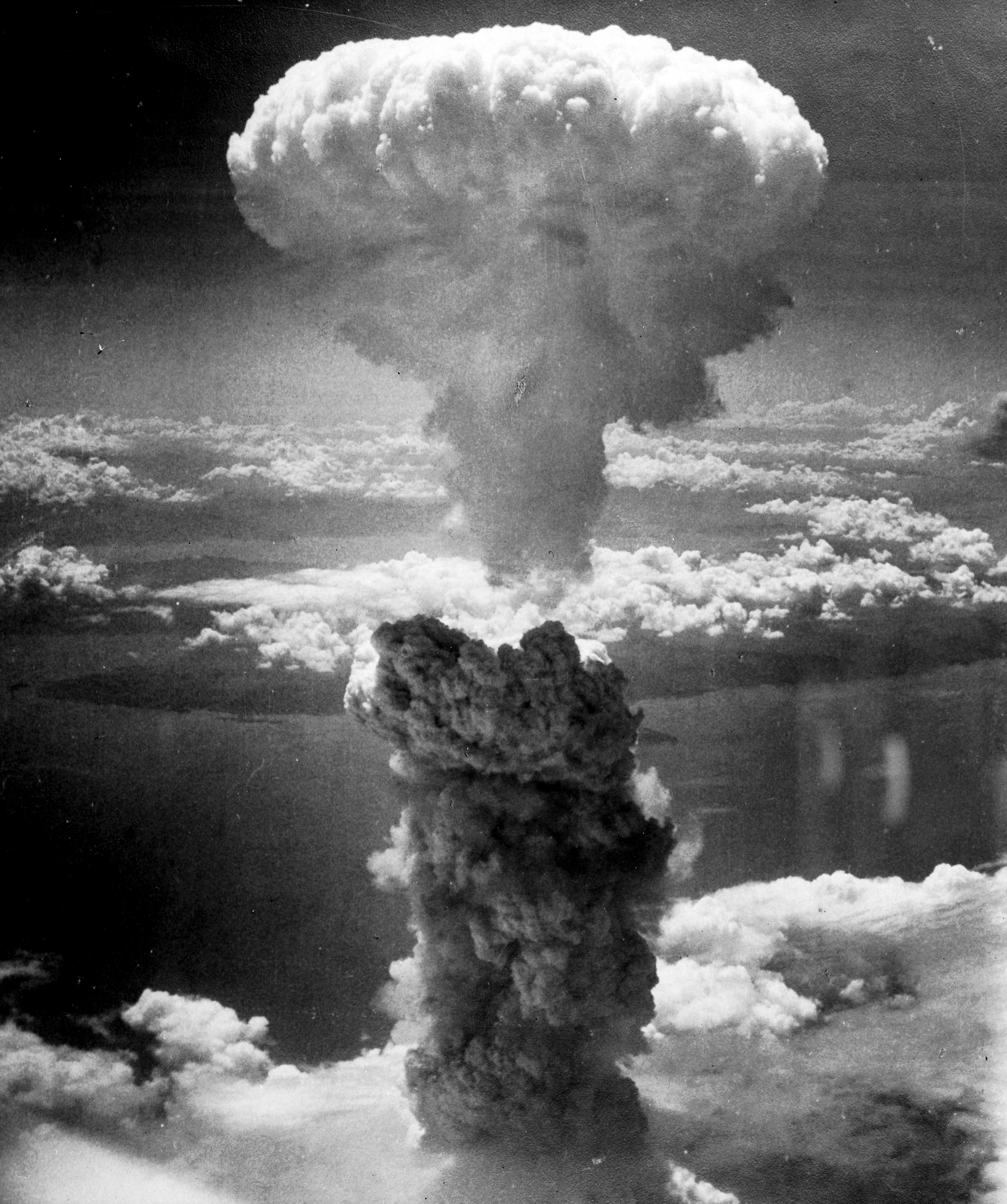 Mushroom cloud above Nagasaki after atomic bombing on August 9, 1945. Taken from the north west.